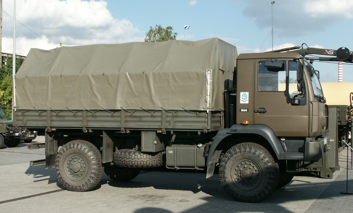 Polish Army Star 944 truck.